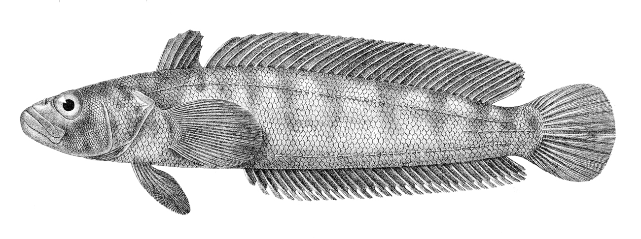 Notothenia trigramma